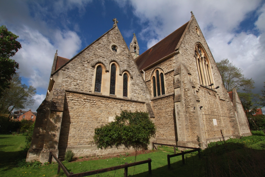 St Michael and All Angels parish church, Lonsdale Road, Summertown, Oxford, seen from the southeast. On the left is the east end of the Lady Chapel; on the right is the east end of the chancel.